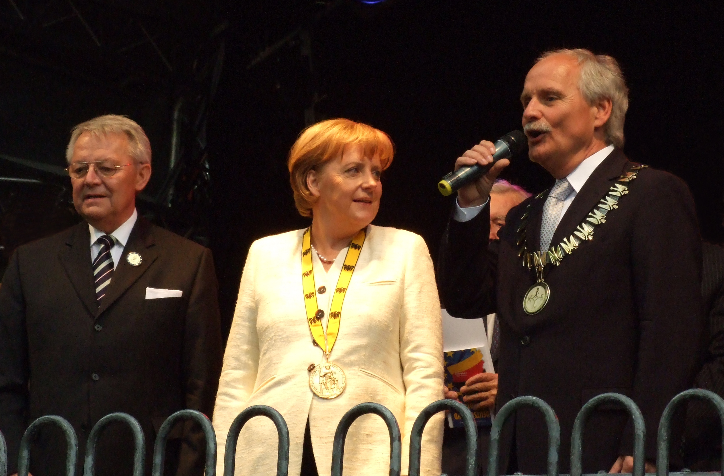 Walter Eversheim, Angela Merkel and Jürgen Linden at the Charlemagne Prize celebration 2008 other images of the same event